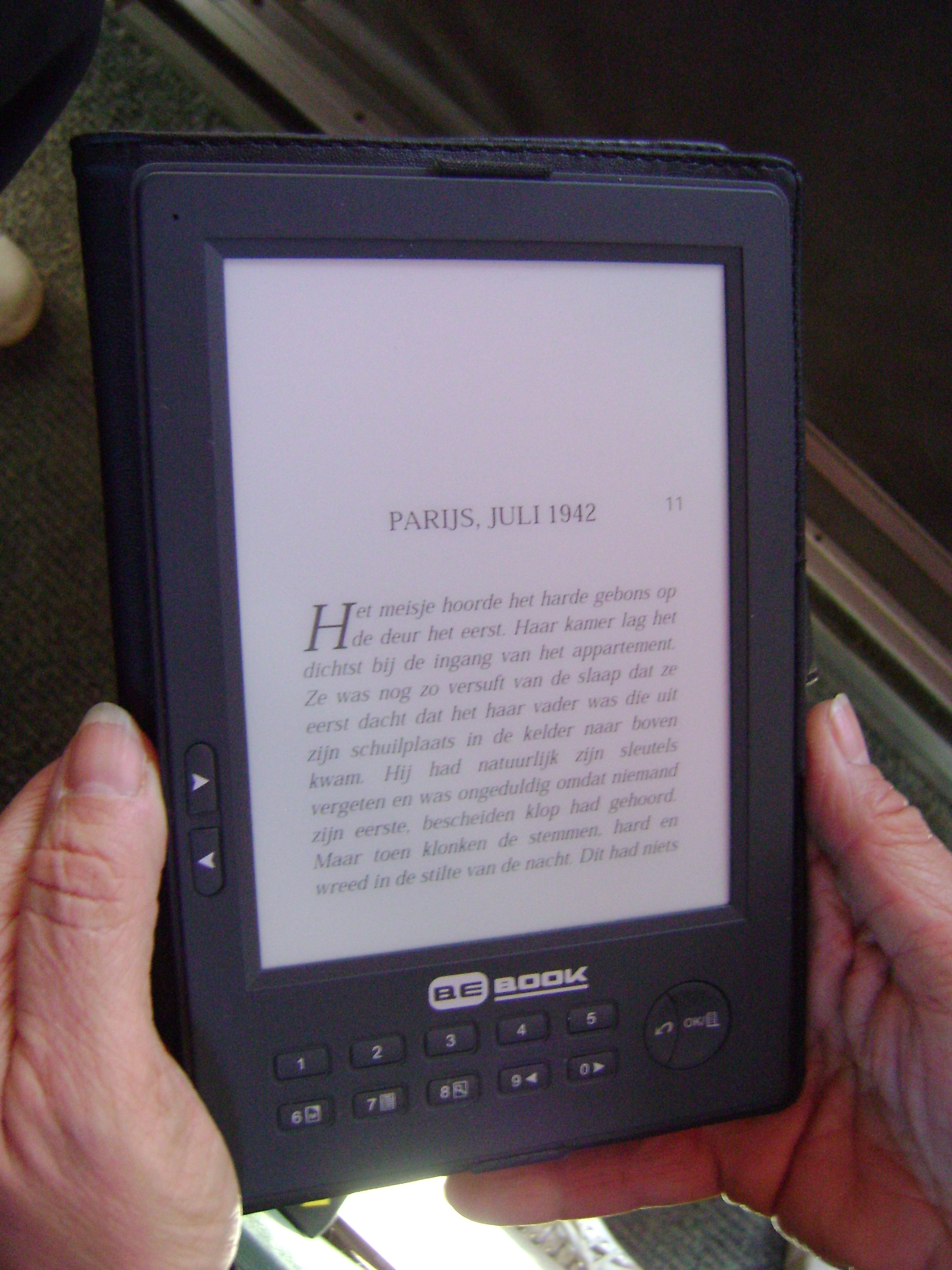 E-reader.